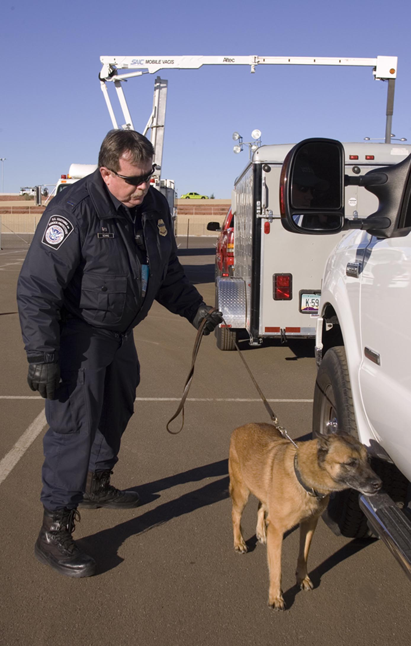 CBP officer with his explosive detection dog clears vehicles entering the Super Bowl area.